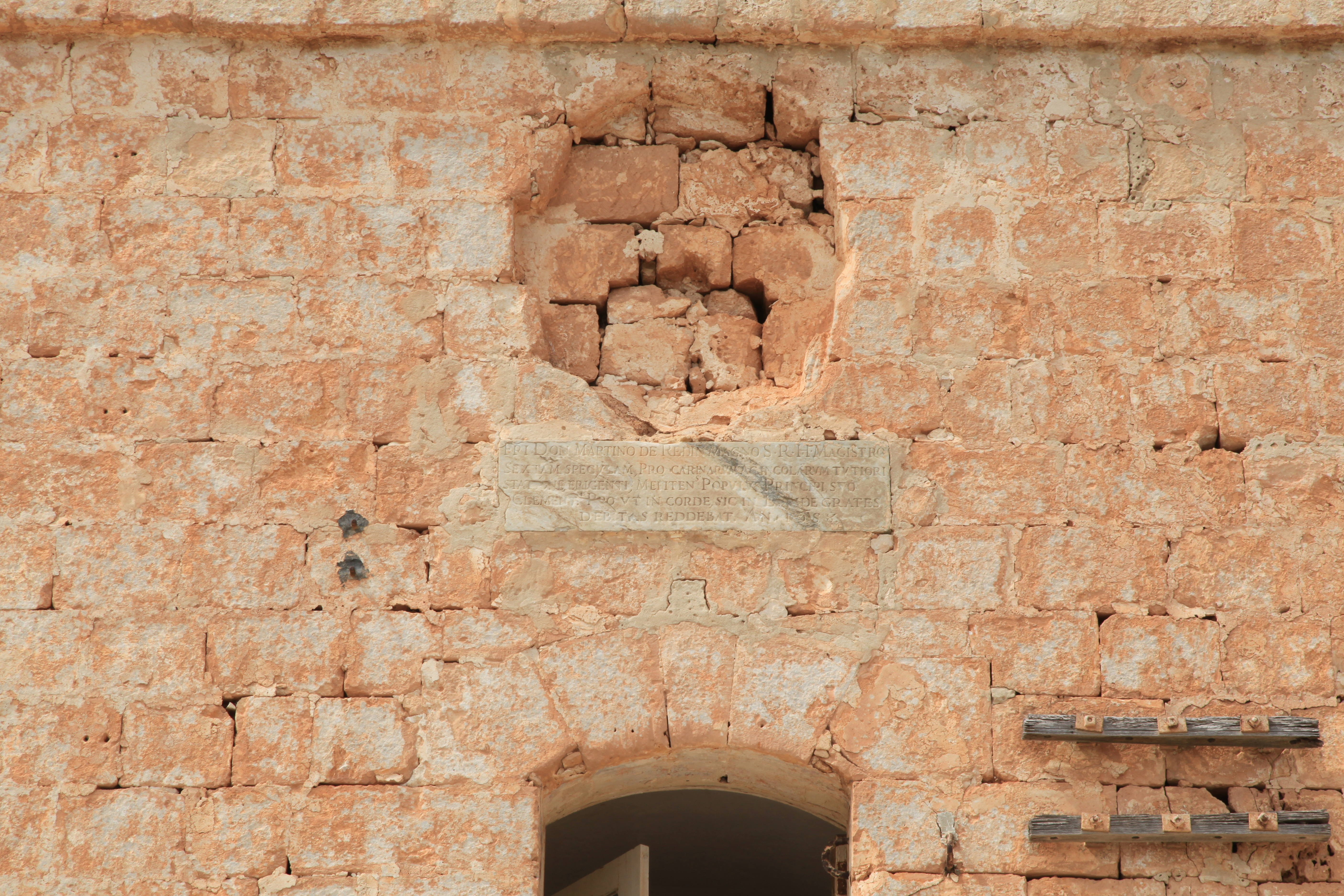 Armier Tower at Triq ir-Ramla tat-Torri l-Abjad in Mellieħa, Malta